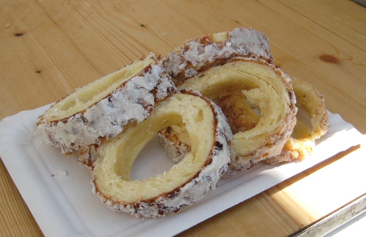 Slices of Skalicky trdelnik photographed in a bakery stall at Agroexport2009 exhibition, Nitra